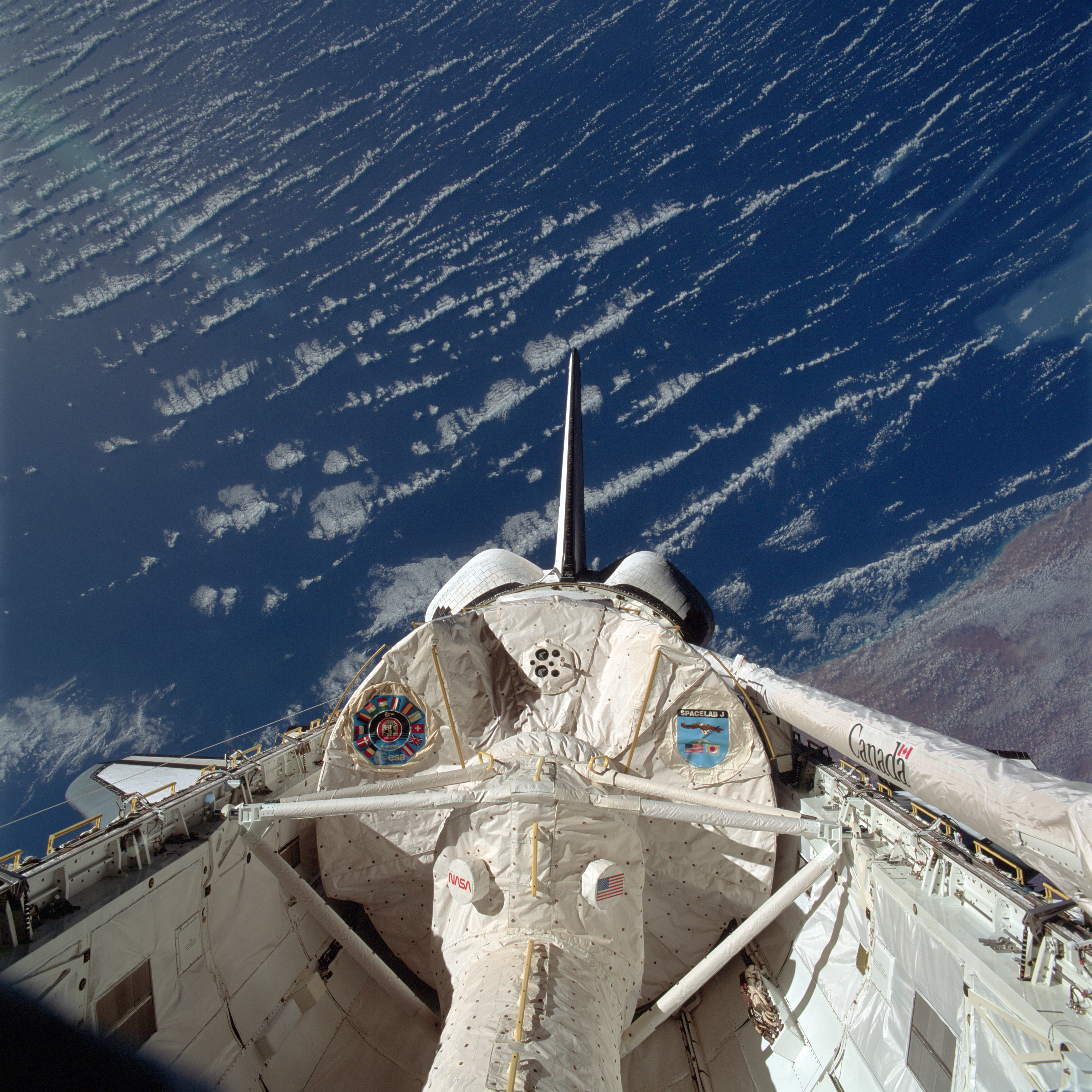 The payload bay of Space Shuttle Endeavour during the STS-47-Mission Part of Space Shuttle Endeavour's payload bay and the Spacelab-J science module which housed numerous scientific experiments during the 9 day mission is seen against the backdrop of the Indian Ocean and the southern coast of Somalia (7.0N, 50.0E). Long rows of cirrocumulus clouds can be seen offshore over the ocean.